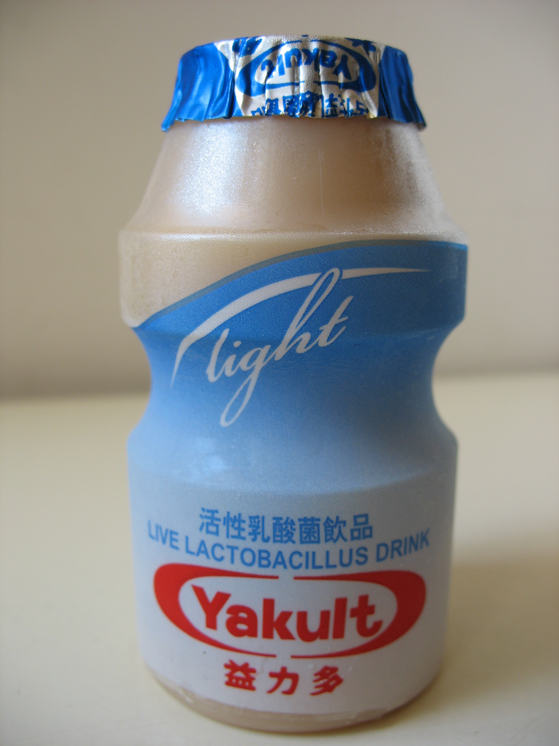 Yakult Light in Hong Kong, discontinued, and replaced by Yakult LT